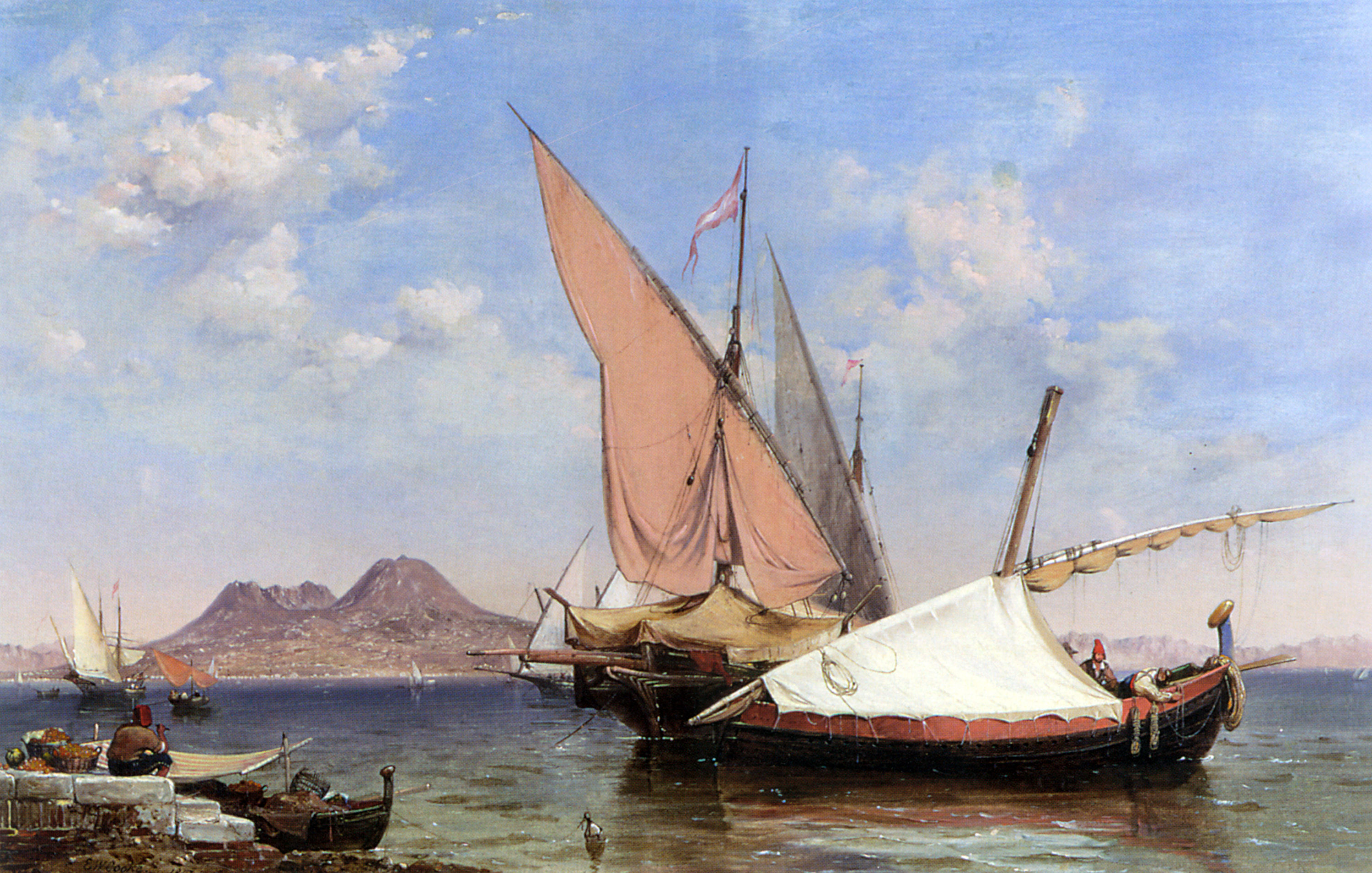 Vesuvius, Catalan and Paranzella